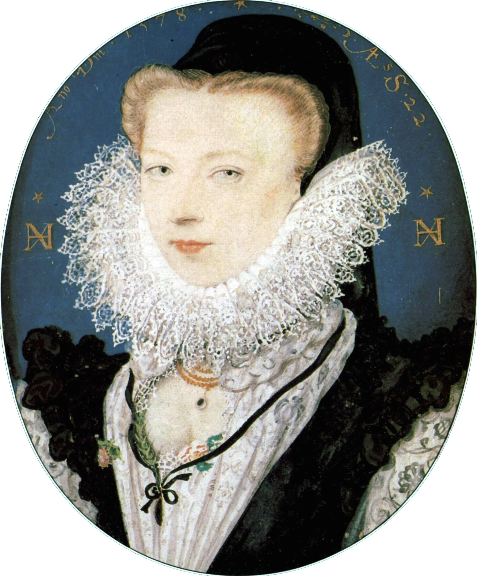 Miniature painting, Elizabethan Period